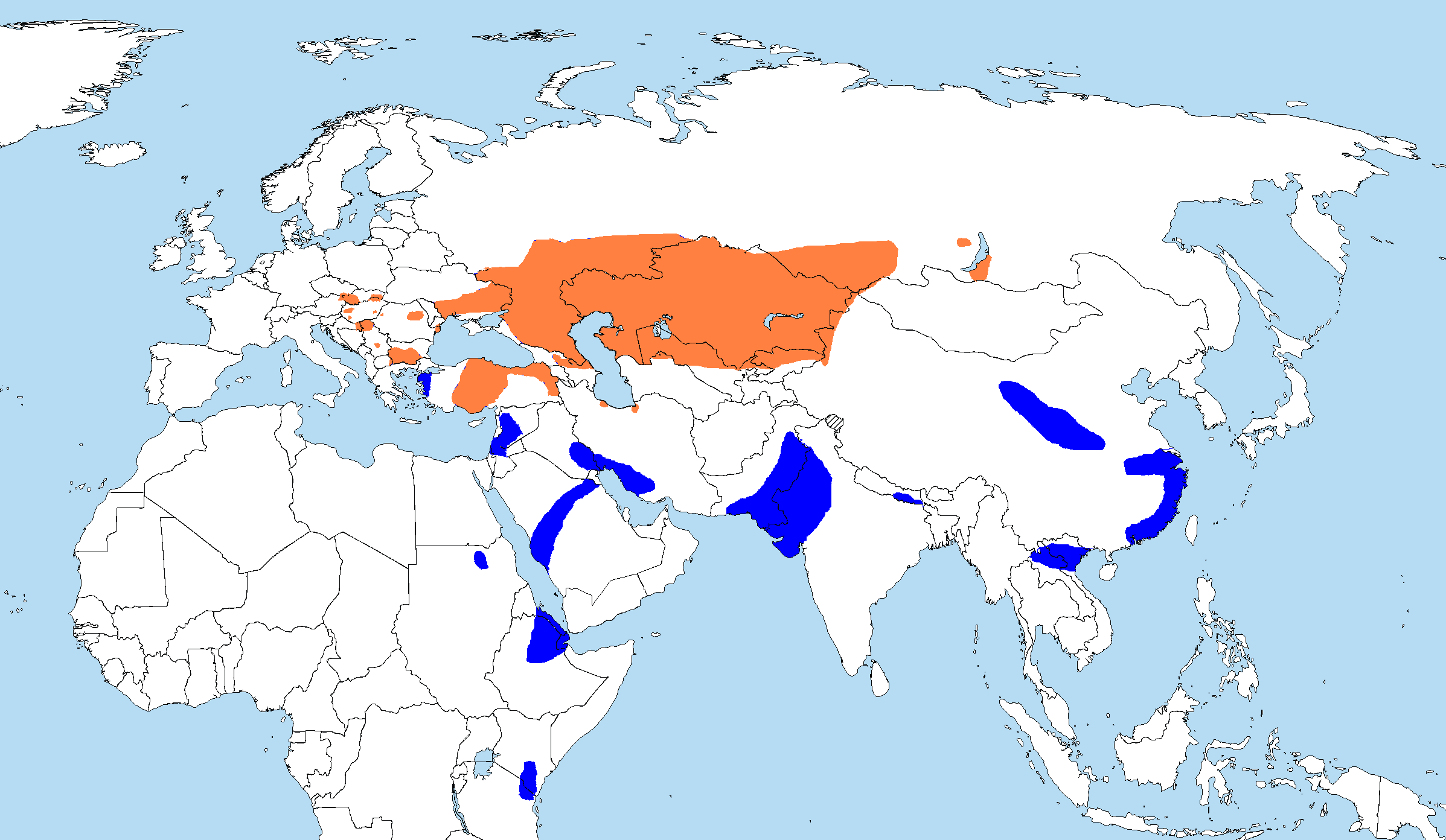 Eastern Imperial Eagle (Aquila heliaca), breeding and wintering area.